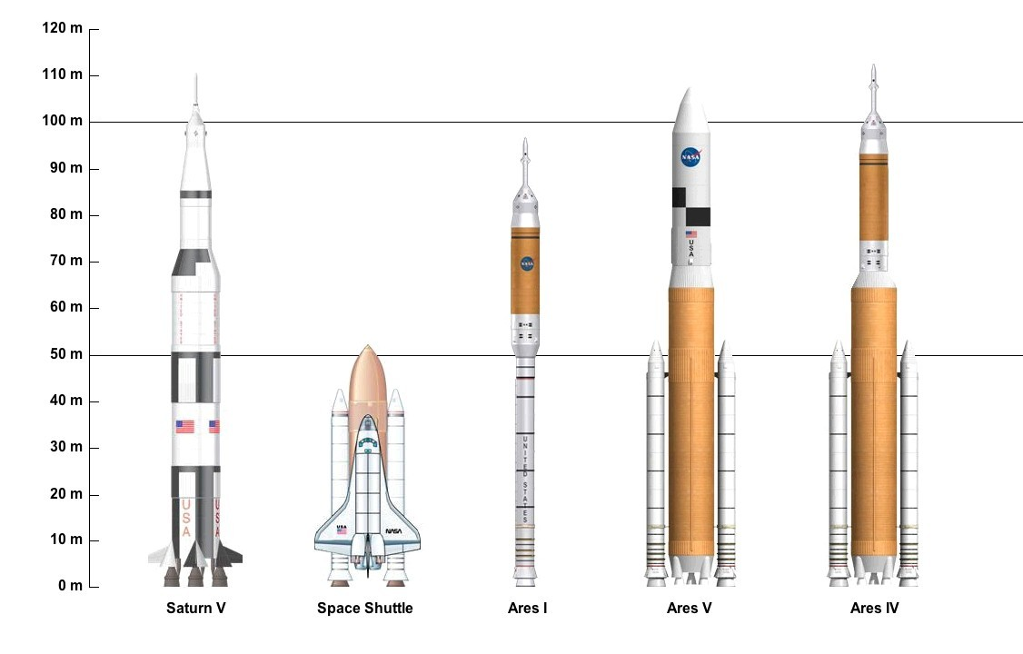 Comparsion of Saturn V, Space Shuttle, Ares I, Ares IV and Ares V